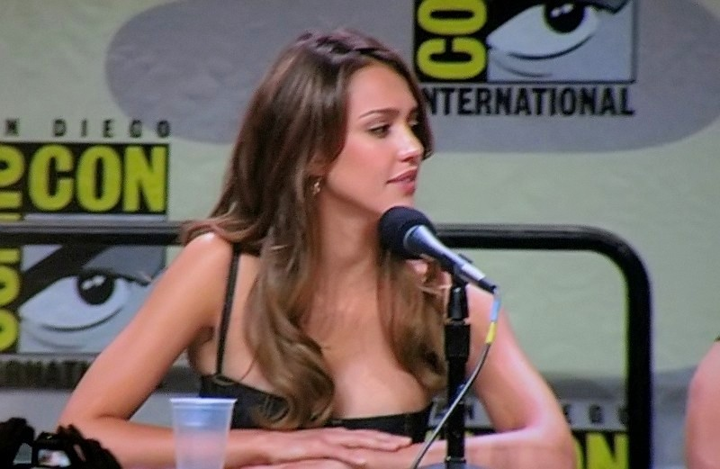 Jessica Alba attending Comic Con 2007 to promote Good Luck Chuck